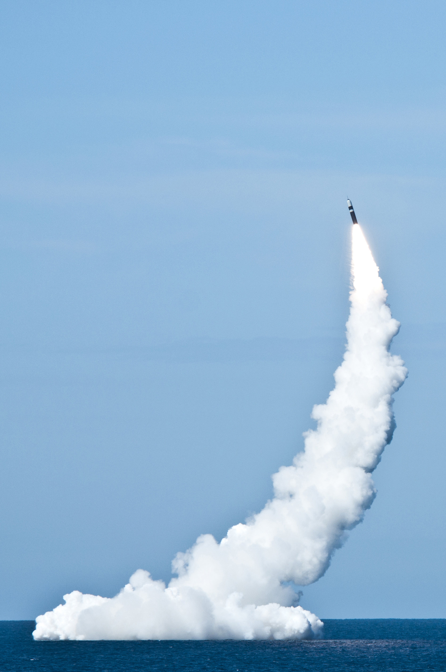 PACIFIC OCEAN (March 1, 2011) An unarmed Trident II D5 missile launches from the Ohio-class fleet ballistic-missile submarine USS Nevada (SSBN 733) off the coast of Southern California. The test launch was part of the U.S. Navy Strategic Systems Programs demonstration and shakedown operation certification process. The successful launch certified the readiness of an SSBN crew and the operational performance of the submarine's strategic weapons system before returning to operational availability. The launch was the 135th consecutive successful test flight. (U.S. Navy photo by Seaman Benjamin Crossley/Released)